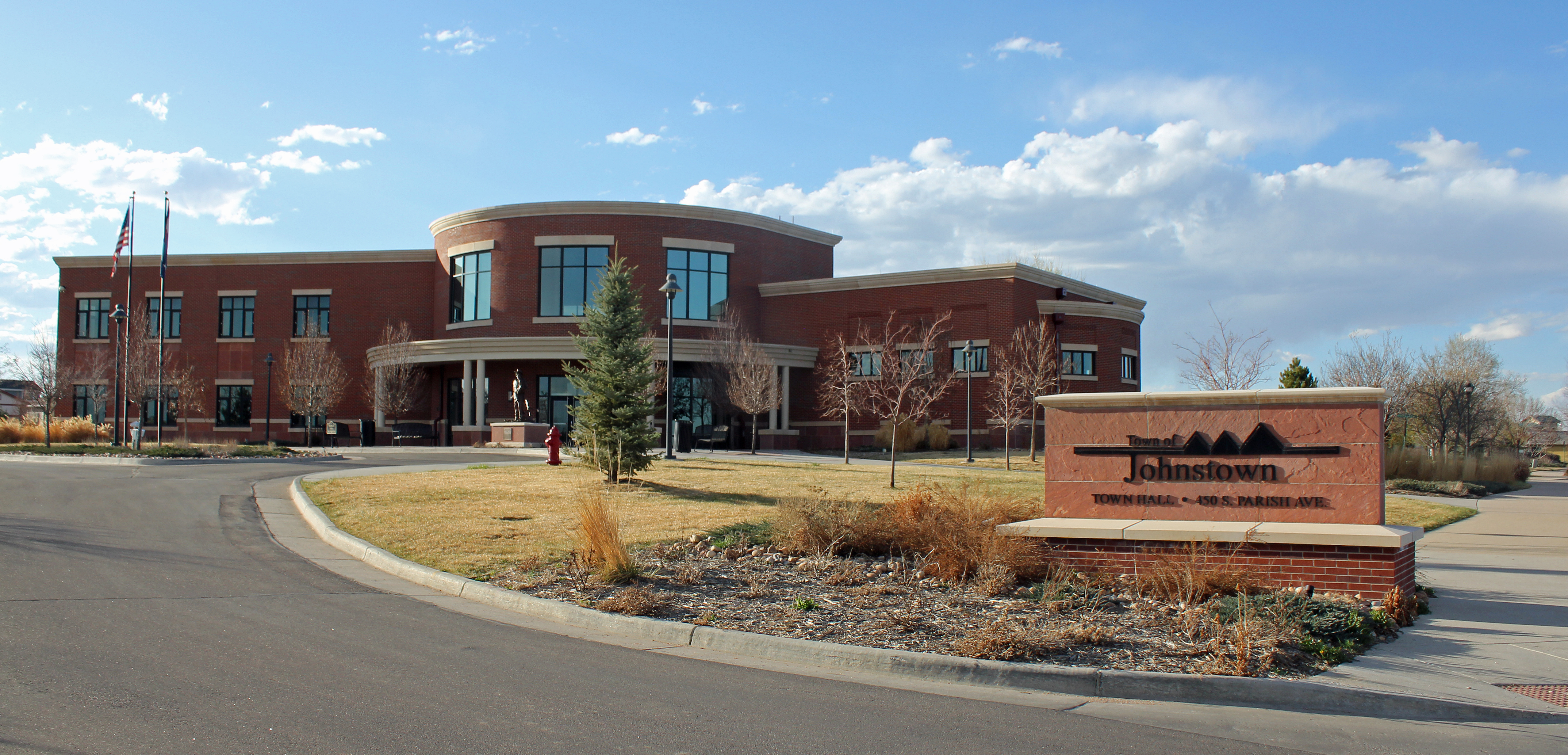 The Johnstown, Colorado Town Hall, located at 450 South Parish Avenue, Johnstown, Colorado.